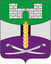 Shcherbinovsky rayon (Krasnodar krai), coat of arms